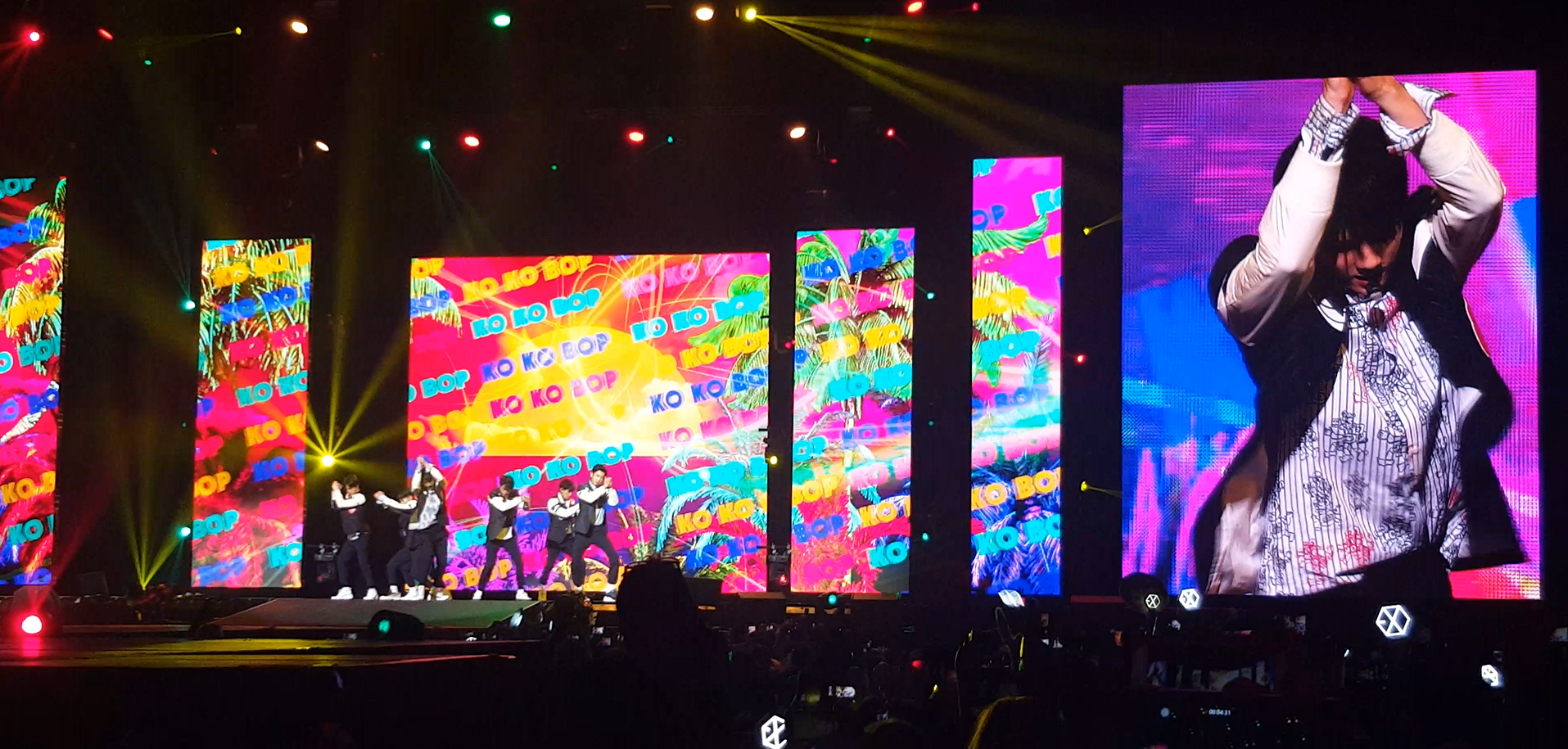 EXO performing Ko Ko Bop in Sydney at KCON Australia 2017